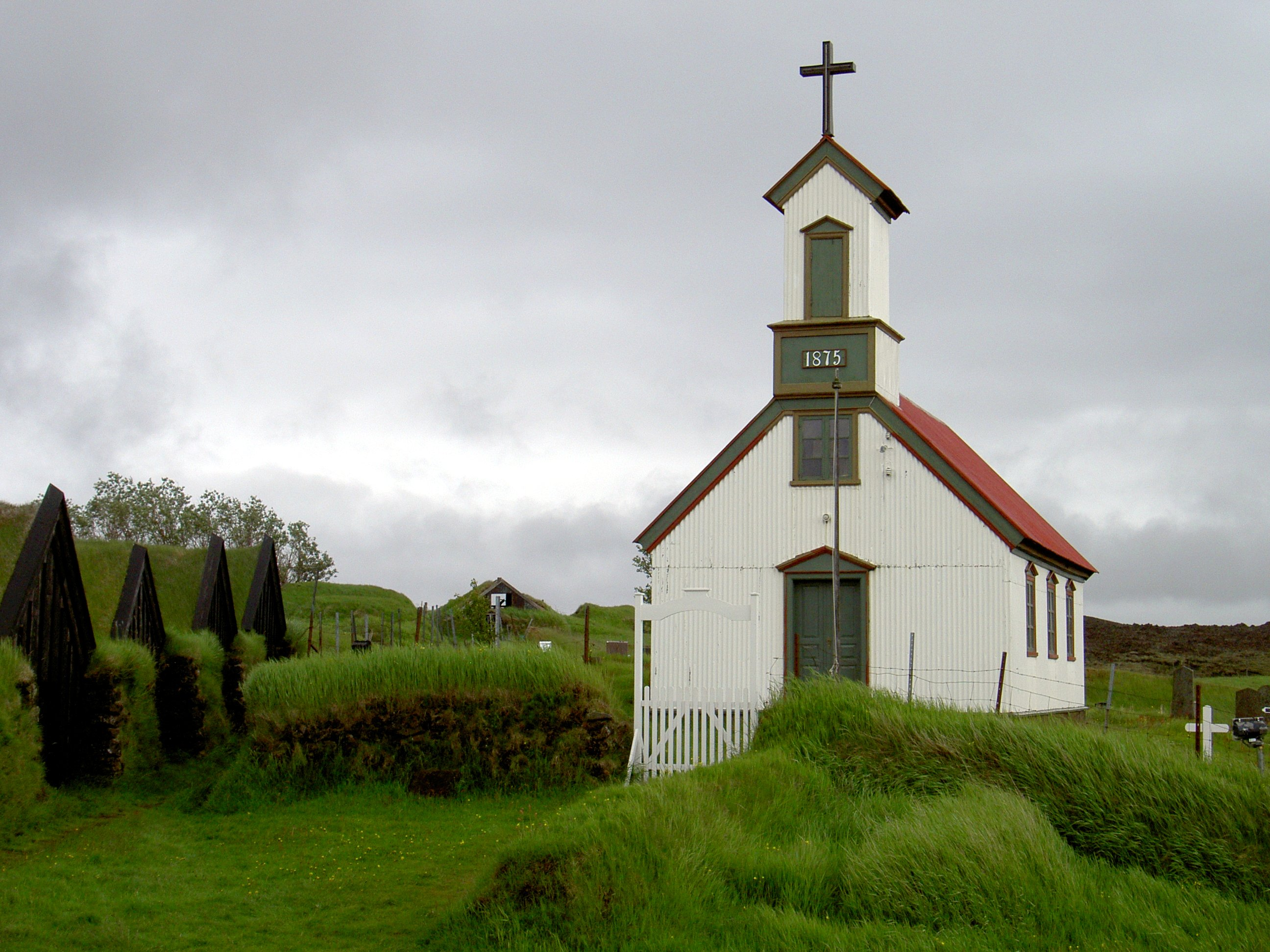 Church in Keldur, Iceland.